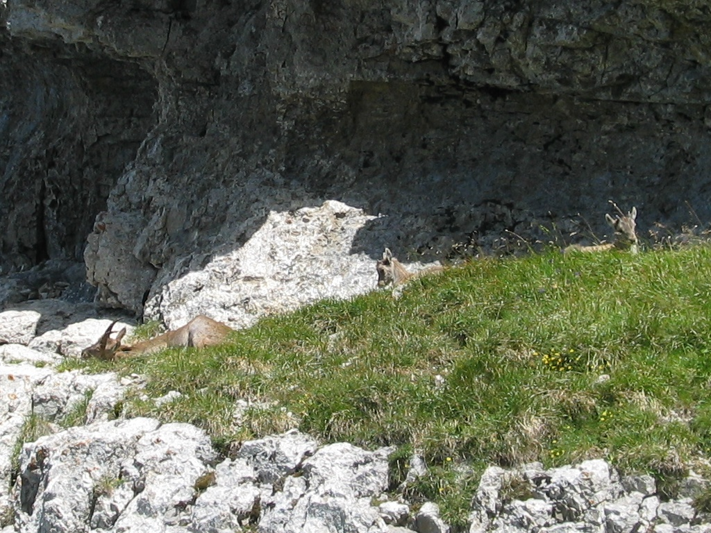 Ibex in french Alpes (Near Annecy), Capra Ibex, one female and two younglings Picture taken in Alpes, France, on 07/28/2005, by User:julio